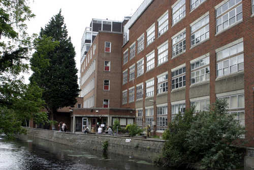 Knights Park campus, Kingston University